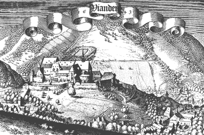 Vue upon the castle of Vianden. Engraving by Mathias Merian in his work Typographia Alsatiae.